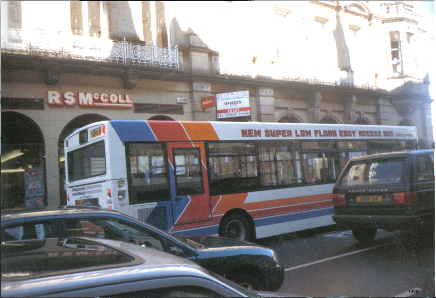 I took this picture of Inverness Stagecoach Group bus my self and release it for use in the public domain.